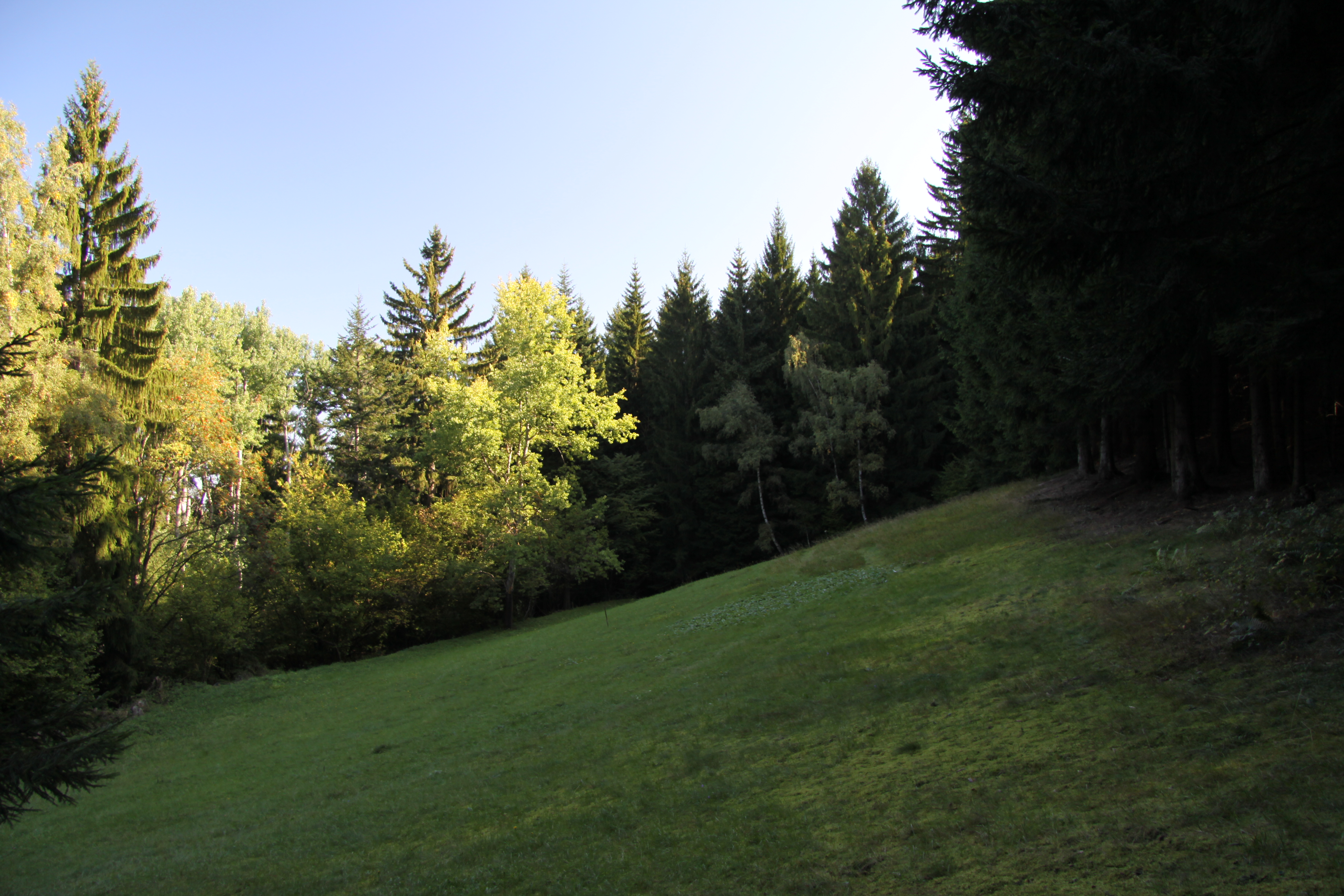 National nature monument U Hajnice in Prachatice District, Czech Republic Project: Chráněná území